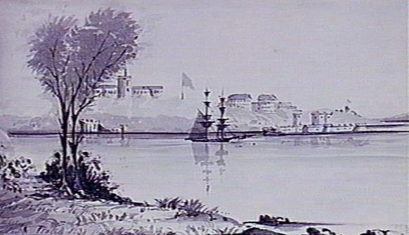 H.M.S. Pelorus, 16 juin, Sidney [i.e. Sydney] New South Wales, 1838; sepia wash, 17.7 x 31.5 cm. 1 November 2009 (original upload date)